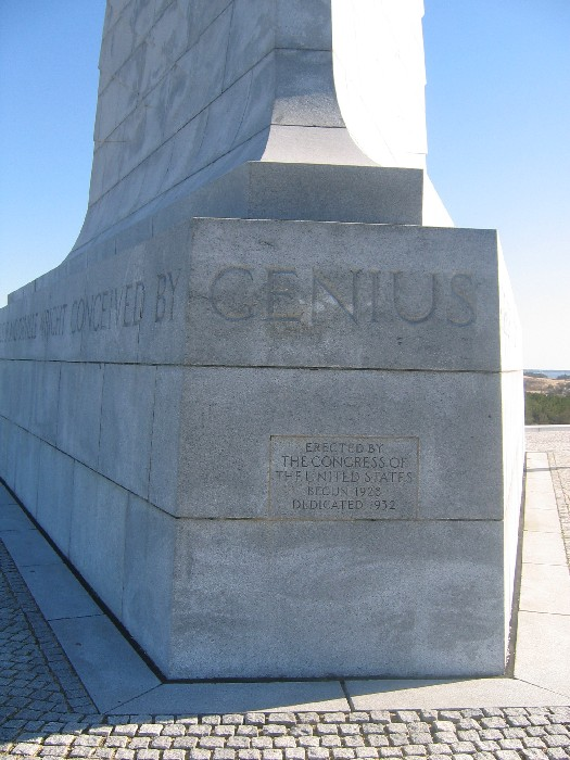 A picture of the Wright Brothers Memorial, part with the "Genius" engraving. Taken by Gooday.1 and released to Wikipedia, but with attribution required. Taken with a Canon 4 megapixel camera.